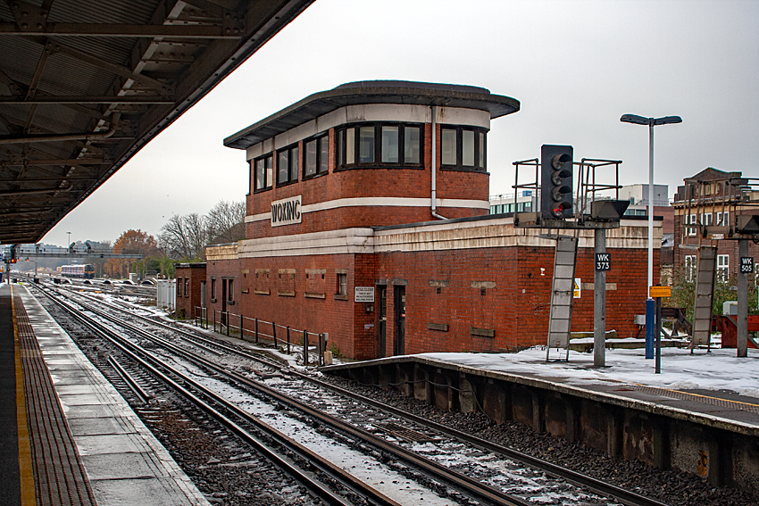 Woking's distinctive brick built signal box. Built by the Southern Railway in the 1930s in the International modern style.